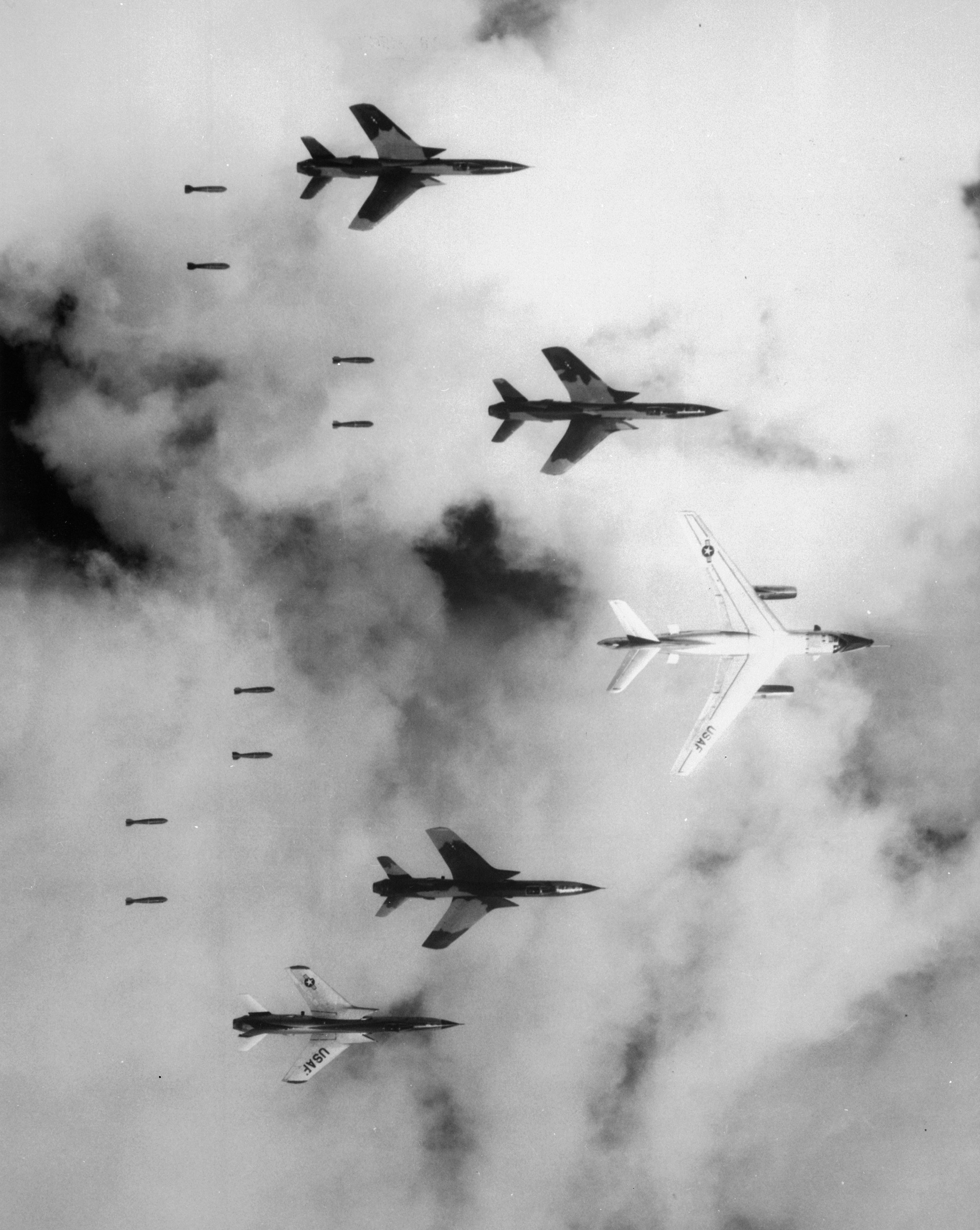 Original caption: "Flying under radar control with a B-66 Destroyer, Air Force F-105 Thunderchief pilots bomb a military target through low clouds over the southern panhandle of North Viet Nam. June 14, 1966."